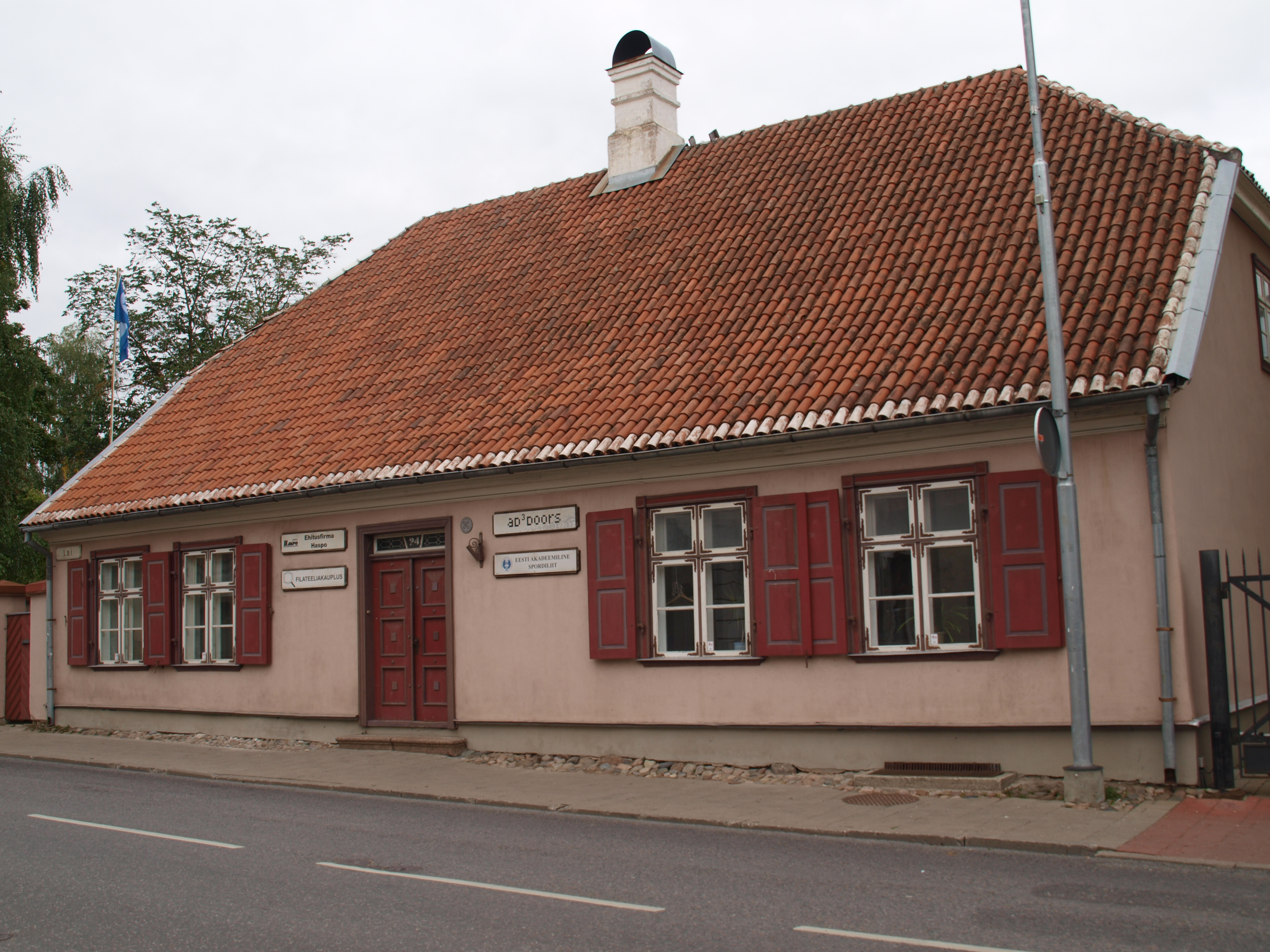 Woden house in Tartu, Lai 24, 18th century. Oldest woden house in Tartu.